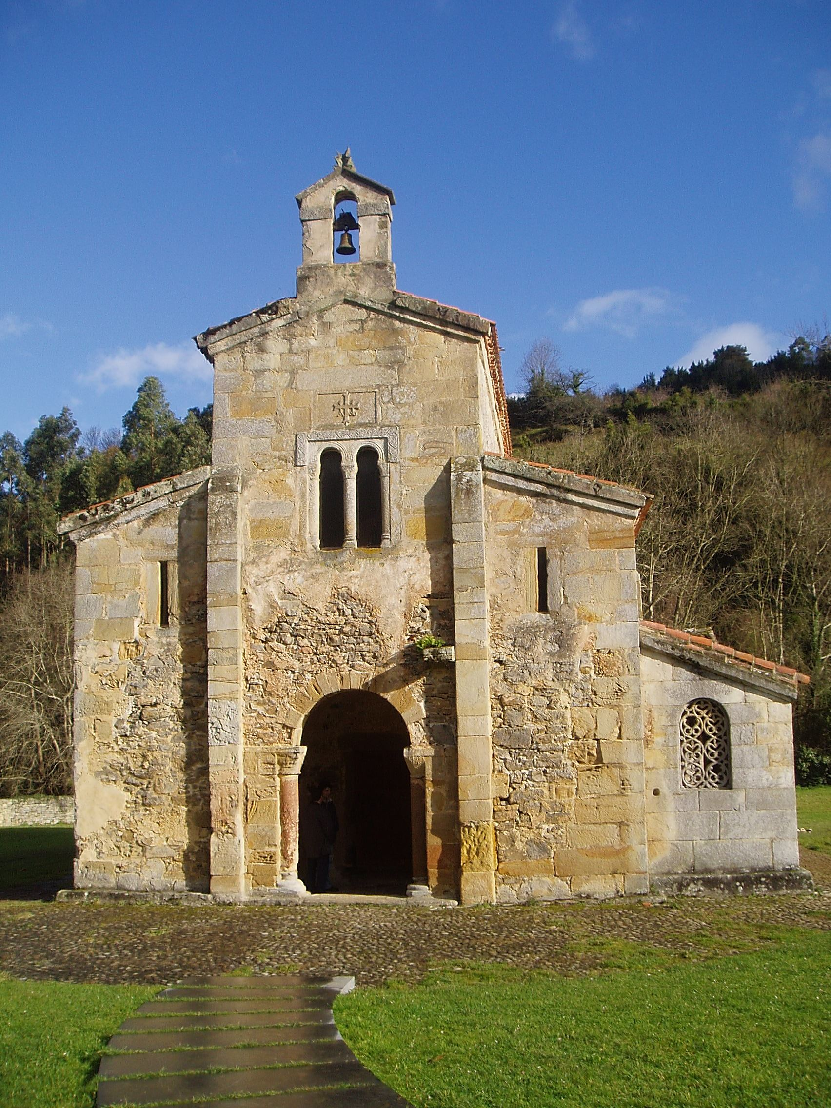 Church of San Salvador de Valdediós. Principality of Asturias. Spain. IX Century.